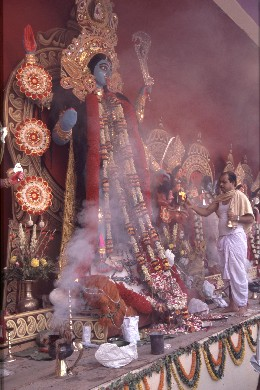 Pandit gives offerings to the goddess Kali